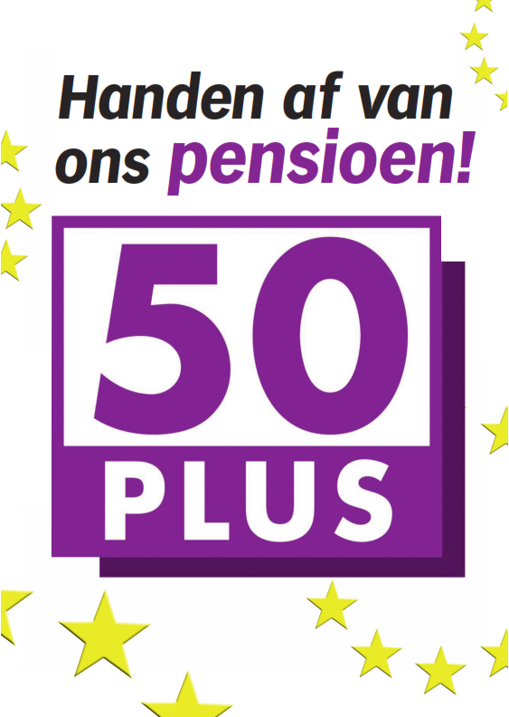 Poster used by the 50Plus party of the Netherlands in the EU elections of 2014